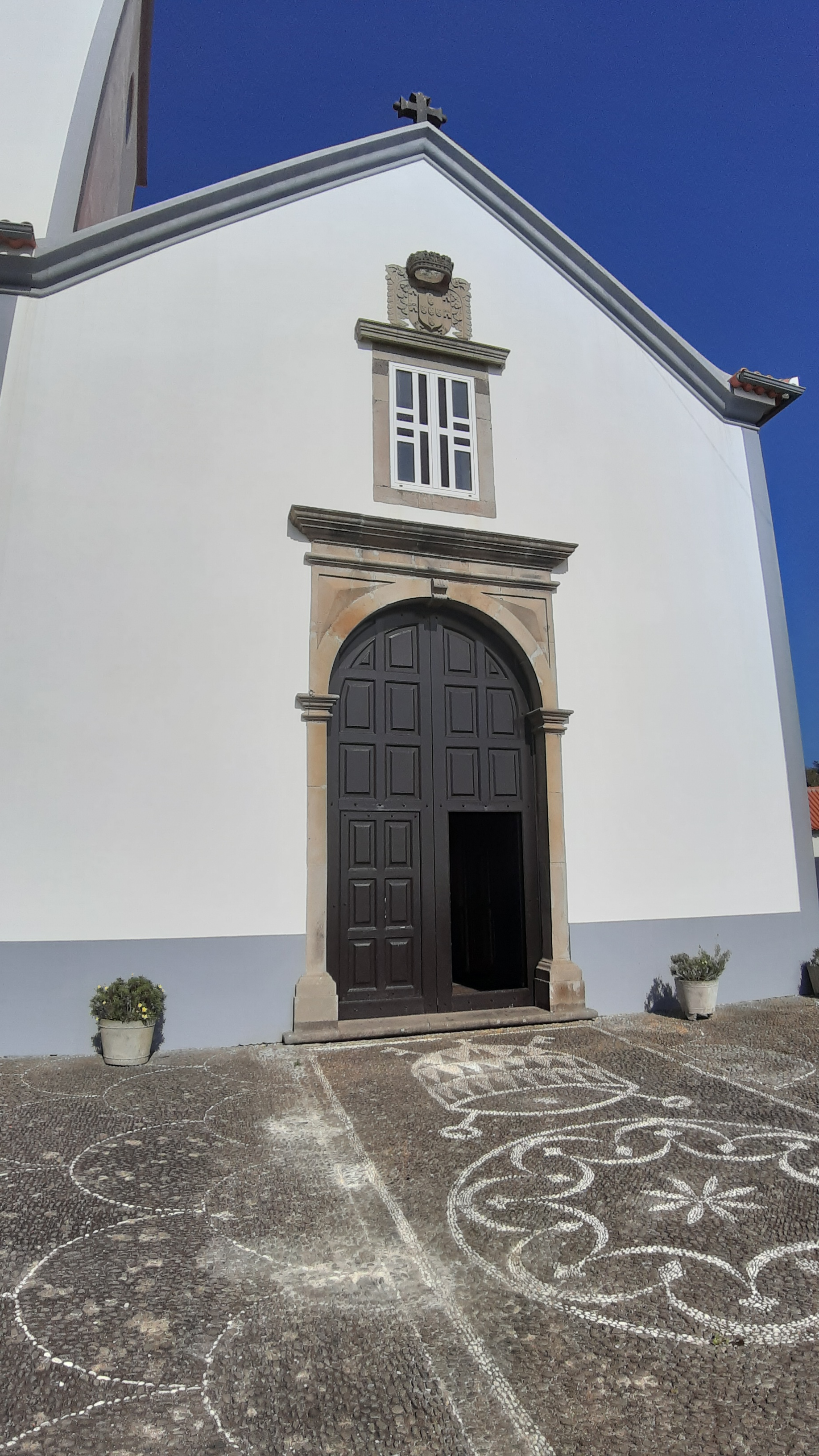 fachada Frontal igreja de São Pedro, Ponta do Pargo